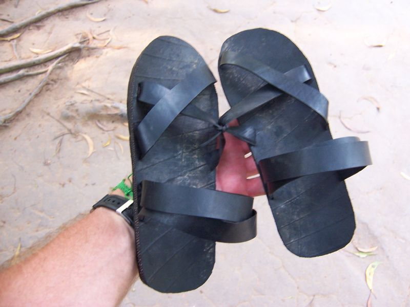 Rubber sandals used during Vietnam War and about ten years after the War.